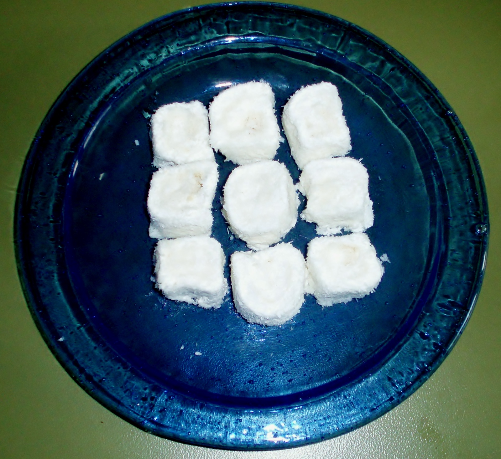 Kaymaklokum (Turkish delight with "kaymak"), a specialty of Afyonkarahisar, Turkey, a cheaper version of "kaymak dolması".